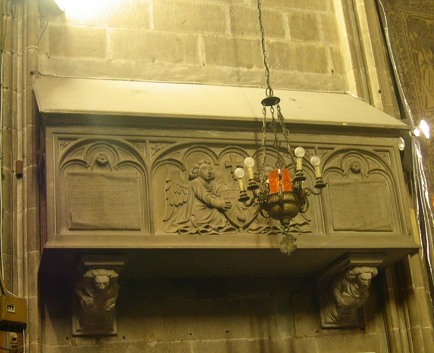 Tomb of bishop Francesc Climent Sapera (dead 1430) in cathedral of Barcelona